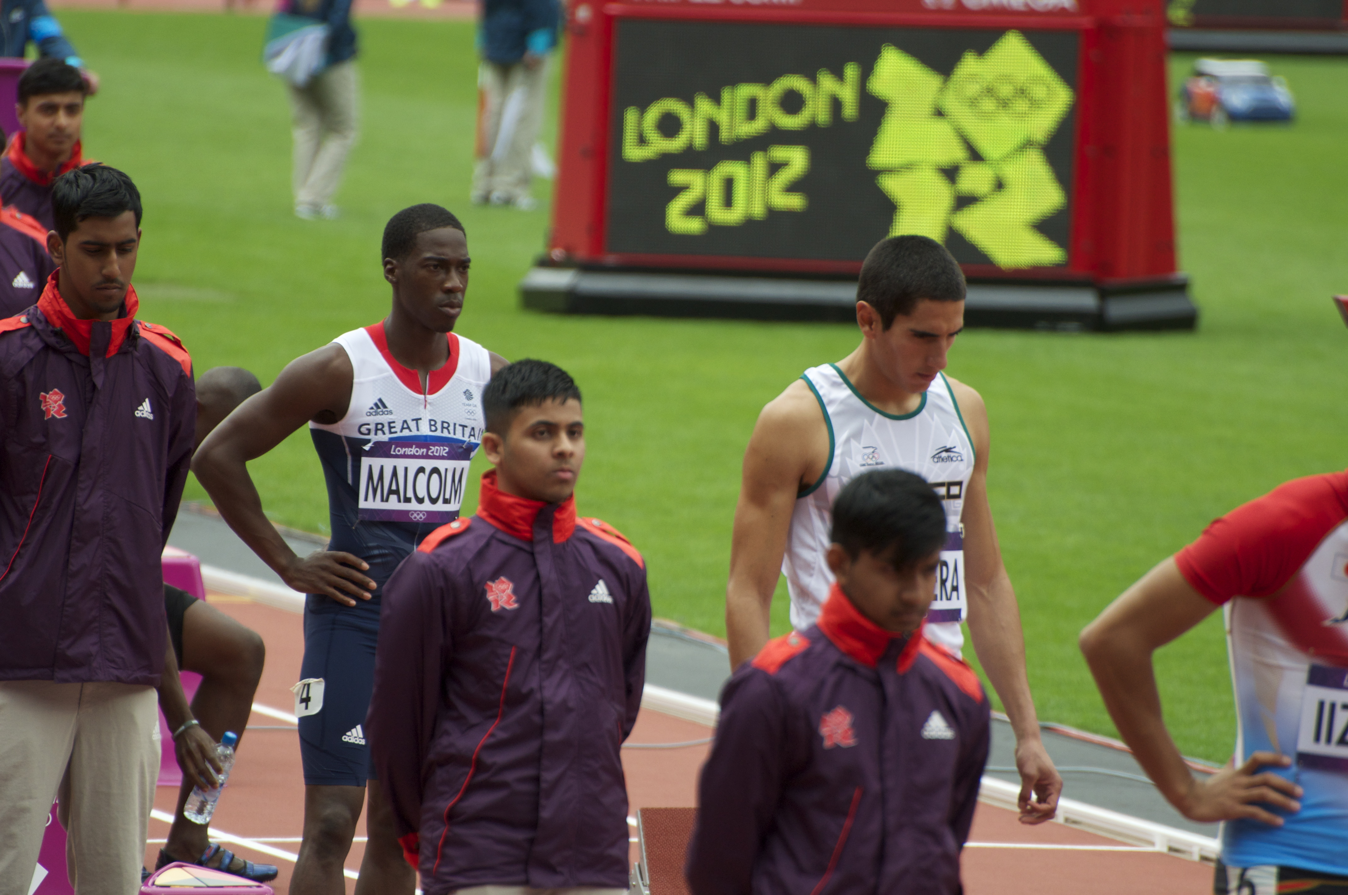 Christian Malcolm